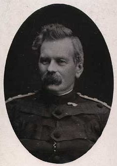 Ernst Axel Christoffer von Voss (1826-1903), Danish officer and industrialist